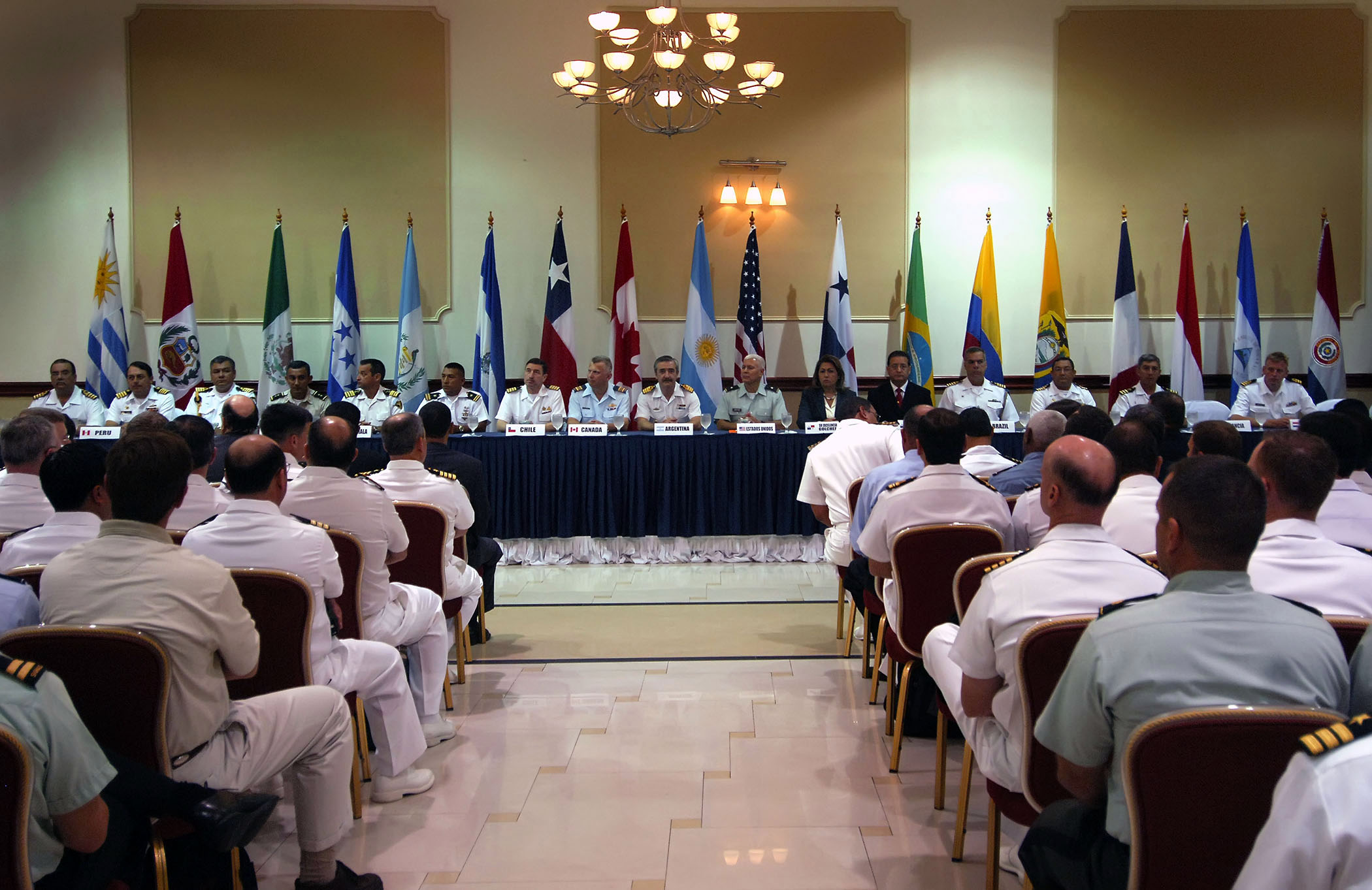 PANAMA (Aug. 29, 2007) – The opening ceremony and press conference kicks off the PANAMAX 2007. Civil and military forces from 19 countries will participate in PANAMAX 2007, a U.S. Southern Command joint and multi-national training exercise co-sponsored with the Government of Panama, in the waters off the coasts of Panama and Honduras. U.S. Navy photo by Mass Communication Specialist 2nd Class Todd Frantom (RELEASED)